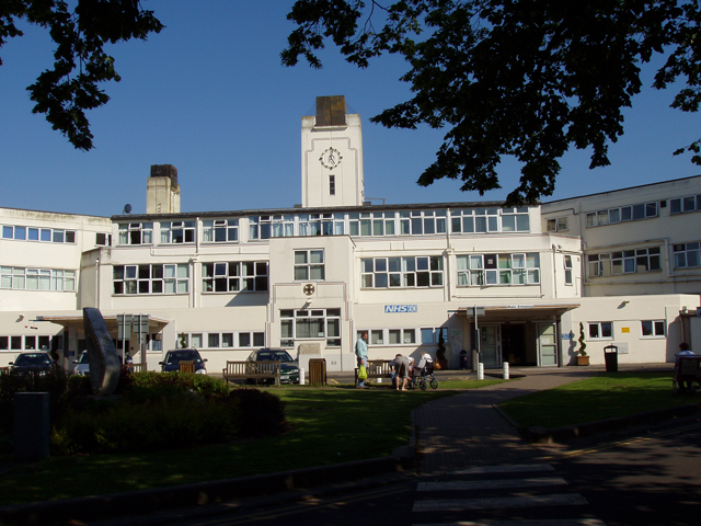 Kent and Canterbury Hospital The main entrance to the old (1937) part of the hospital. "NHS 60" sign on the wall commemorates the 60th anniversary last year (2008) of the founding of the National Health Service.